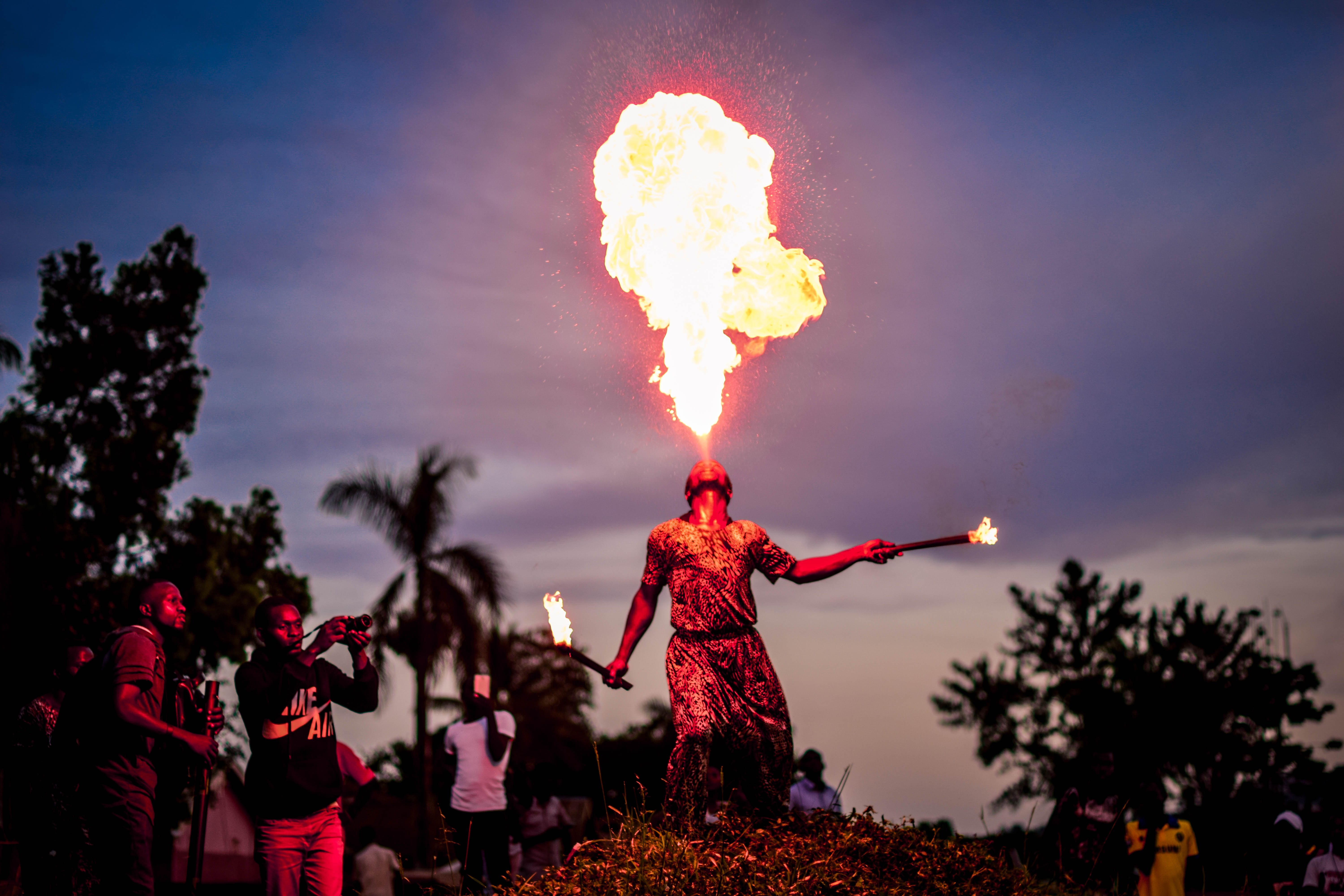 The photo above contains one of the most prolific acrobatics in Uganda. His name is Sempe Henry and he works with Famous Friends Acrobatics group from Uganda. This was one of their practice sessions in Kansanga, a Kampala suburb. I was quiet impressed with what they could do then I found out that they had travelled to China and other few nations for competitions. Their influence in the lower slums of Nabutiti is well marked since acrobatics has been the most popular hobby among young children of ages 12 to 20. They are a true definition of Hardwork. This is an image of "African people at work" from Uganda